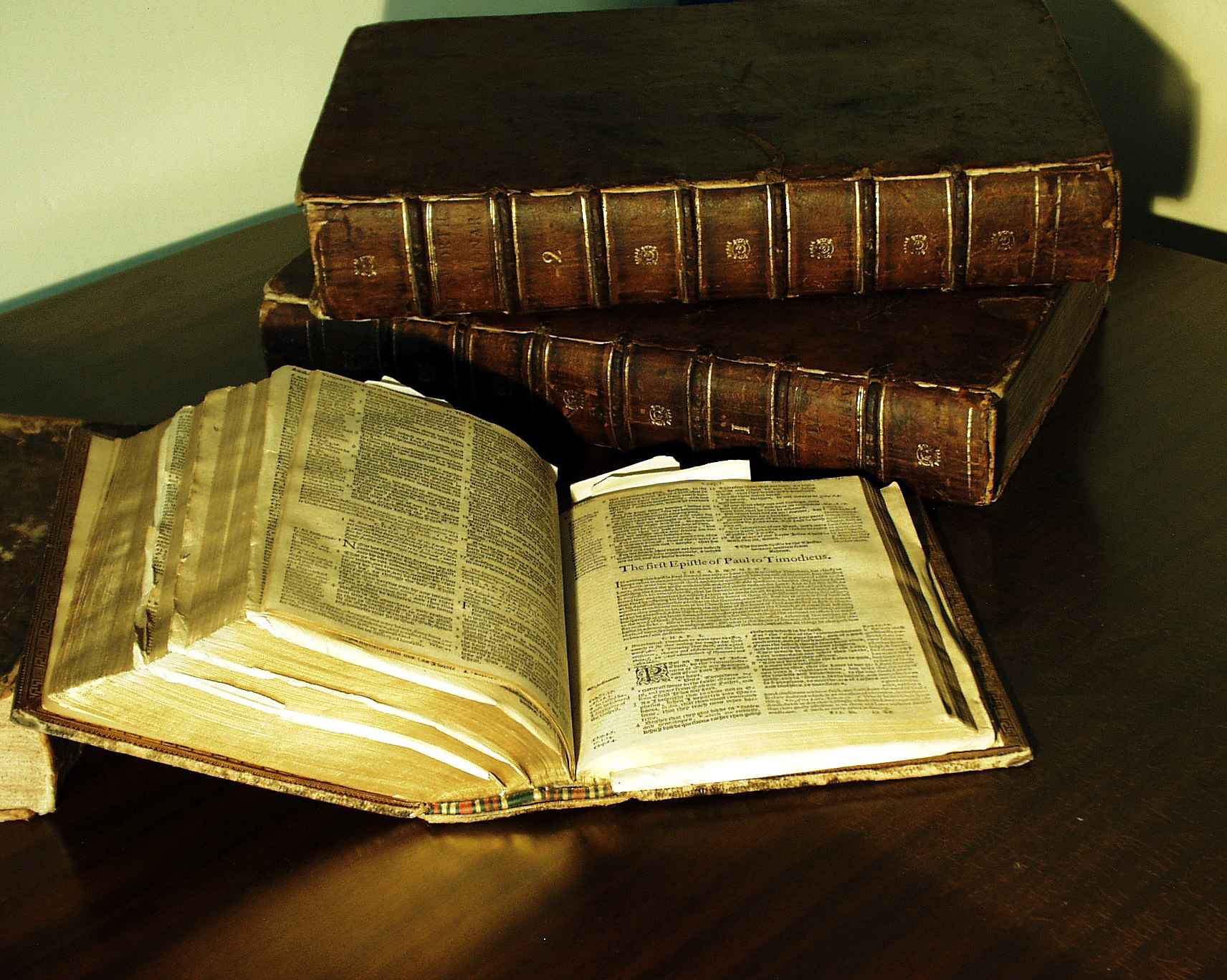 A 1581 edition of the Geneva Bible.